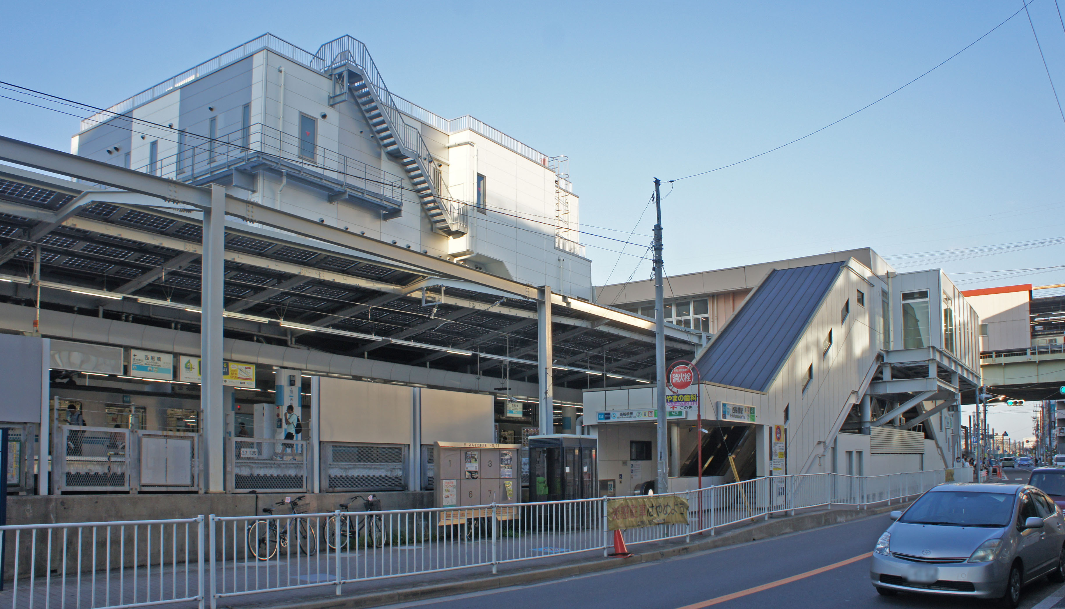 South Exit of Nishi-Funabashi Station